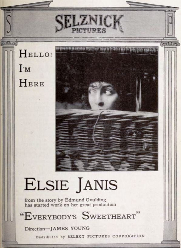 Advertisement for the American comedy film A Regular Girl (1919) under its working title Everybody's Sweetheart with Elsie Janis, on page 15 of the August 9, 1919 Exhibitors Herald.